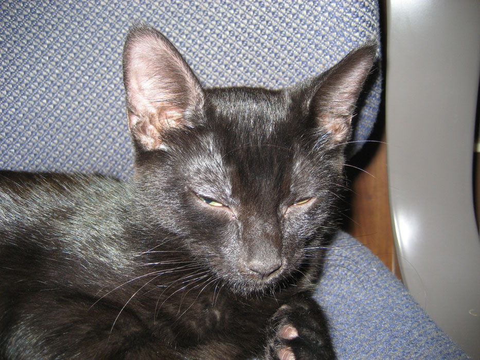 A relaxed cat with partially closed eyes.